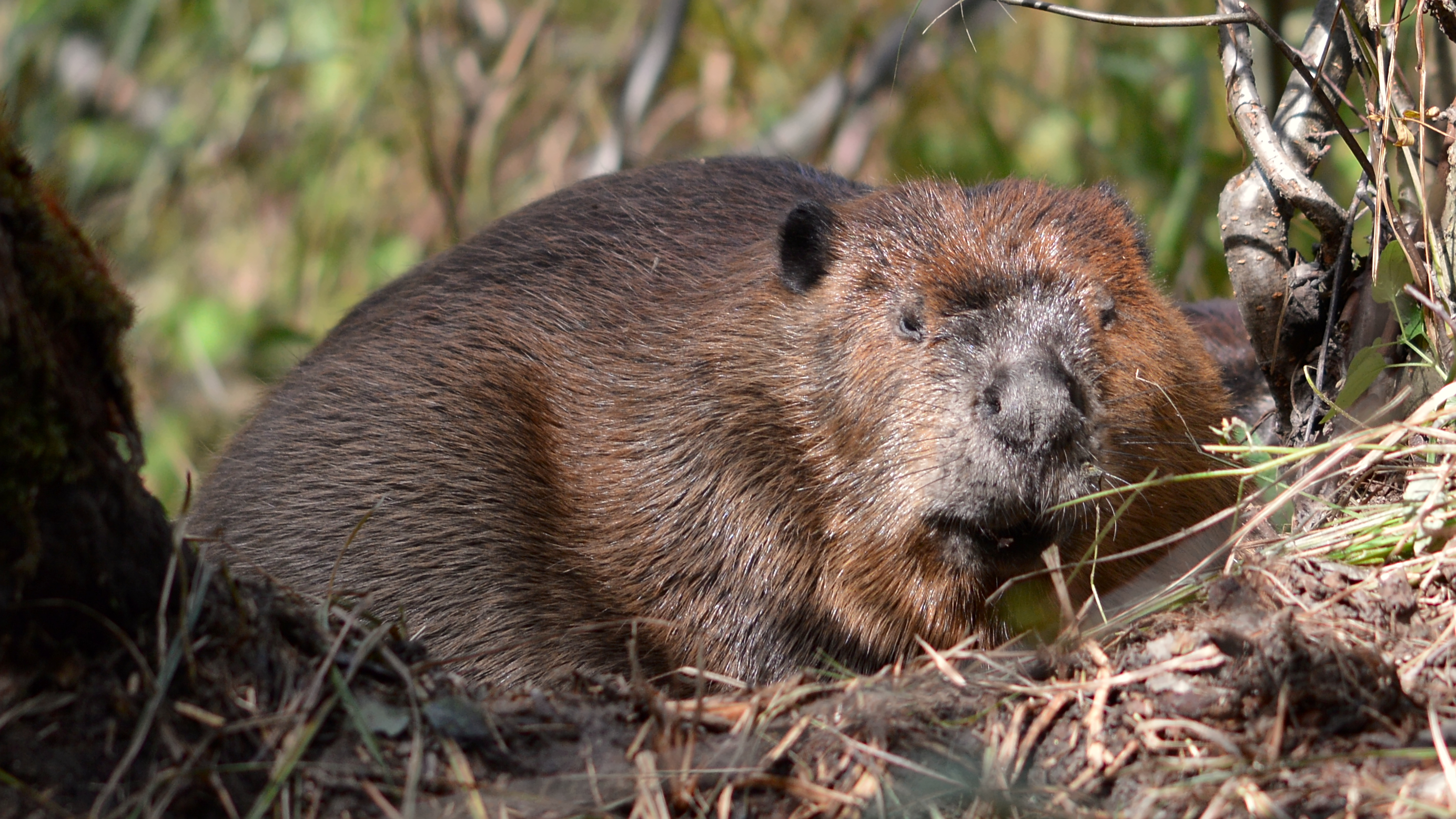 North American Beaver (Castor canadensis) in Algonquin Provincial Park, Ontario, Canada.